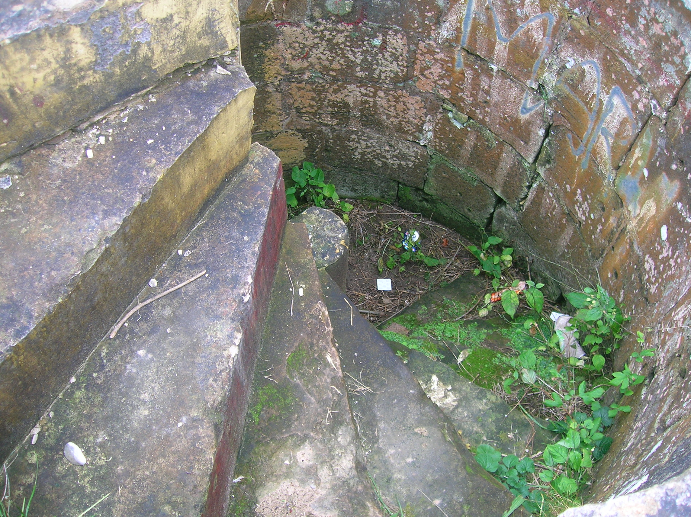 A surviving spiral stair at Terringzean Castle, Cumnock, East Ayrshire, Scotland.